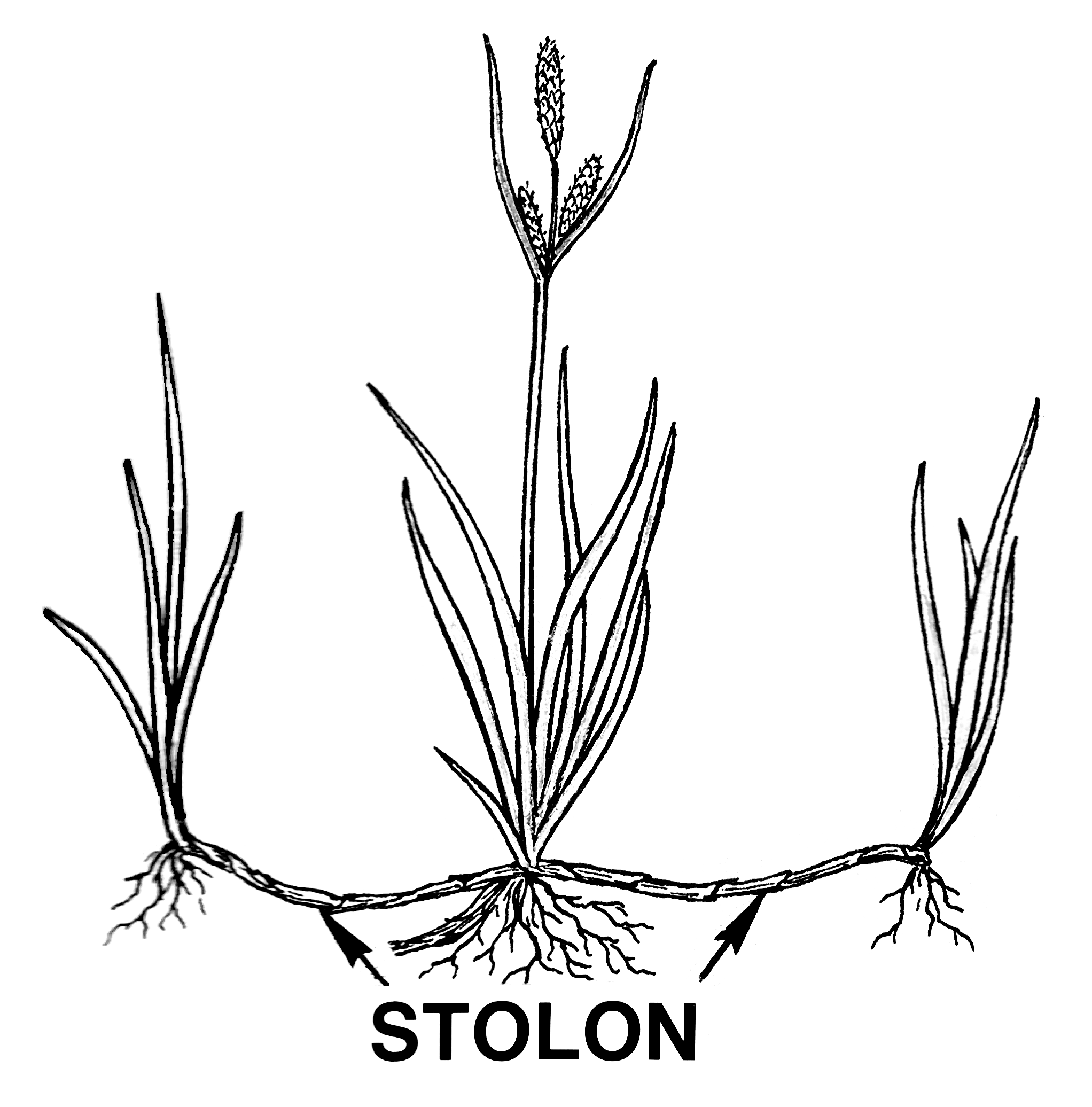 Line art drawing of stolon.